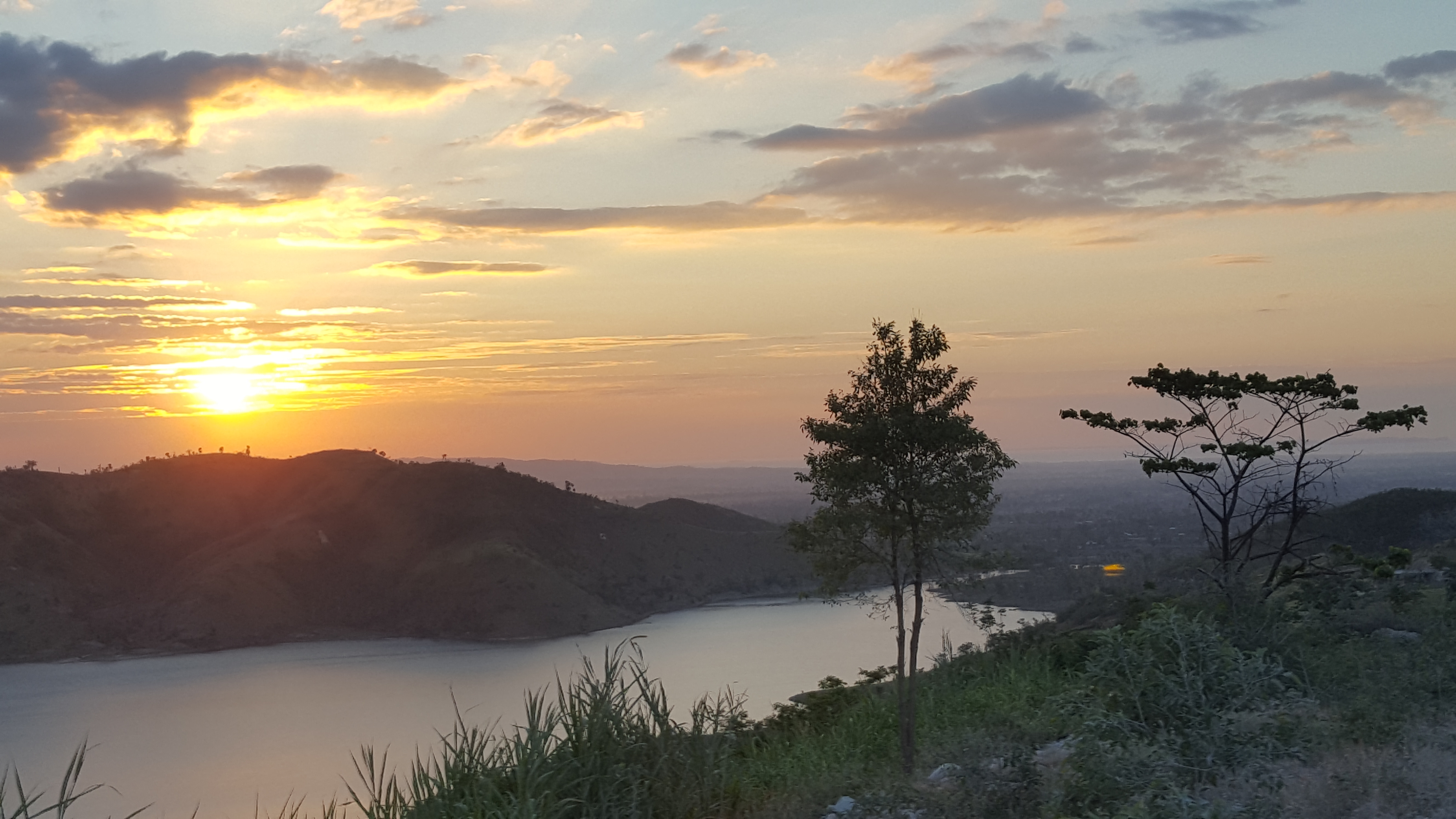 picture